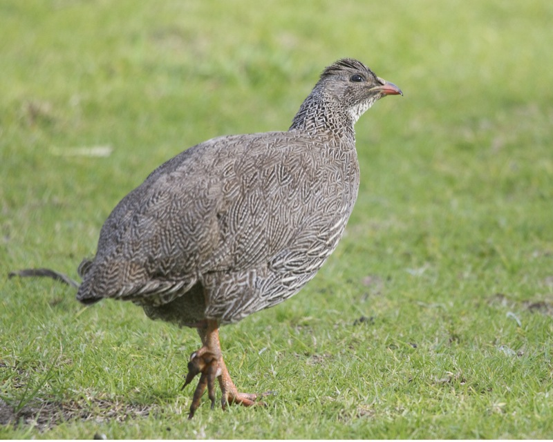 Cape Francolin Pternistis capensis (syn. Francolinus capensis). Kirstenbosch, Capetown, South Africa, 5 October 2009.